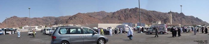 Panoramic view or mountain Uhud Panoramic view or mountain Uhud